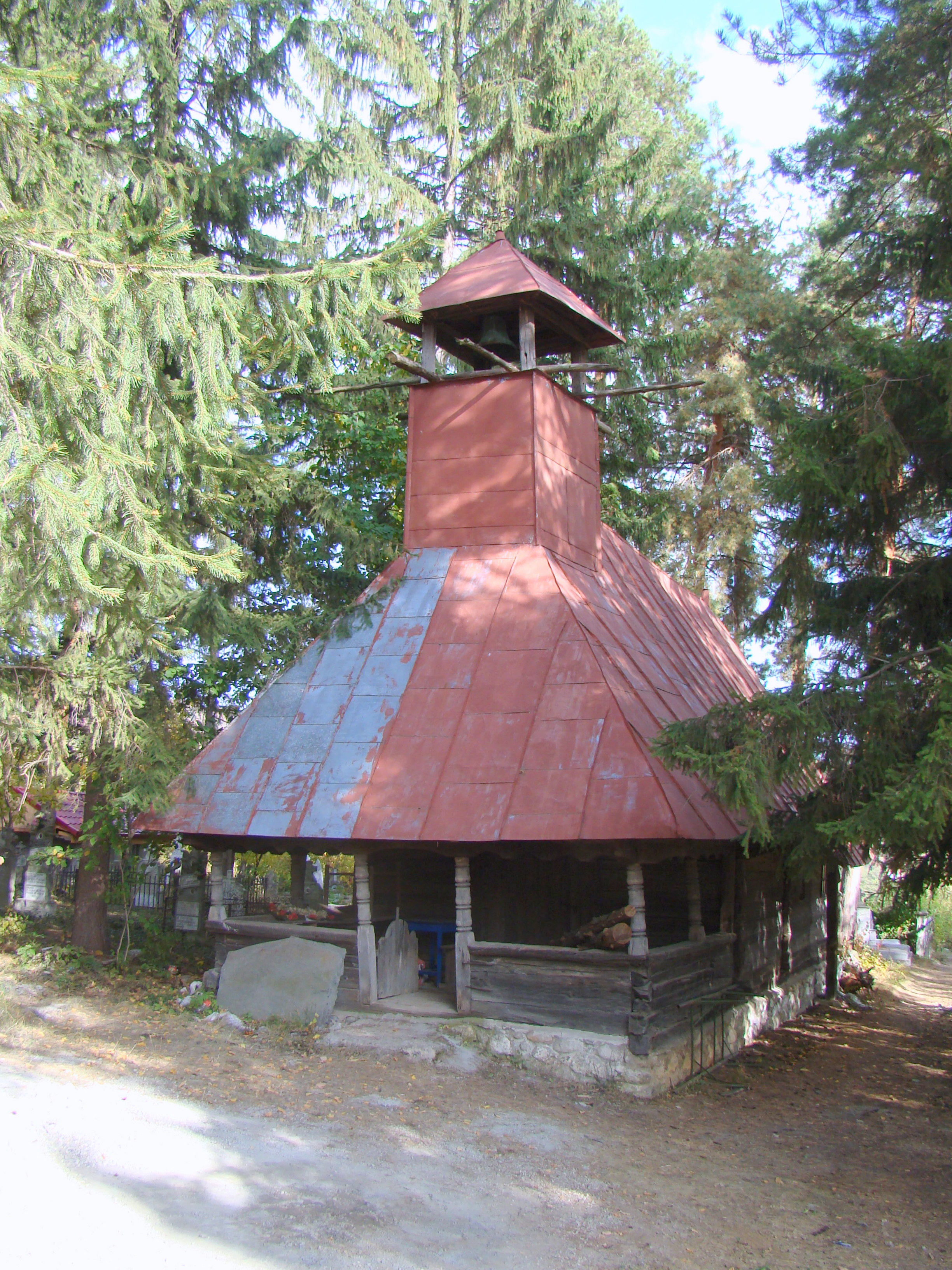 Wooden church in Curpen, Gorj county, Romania